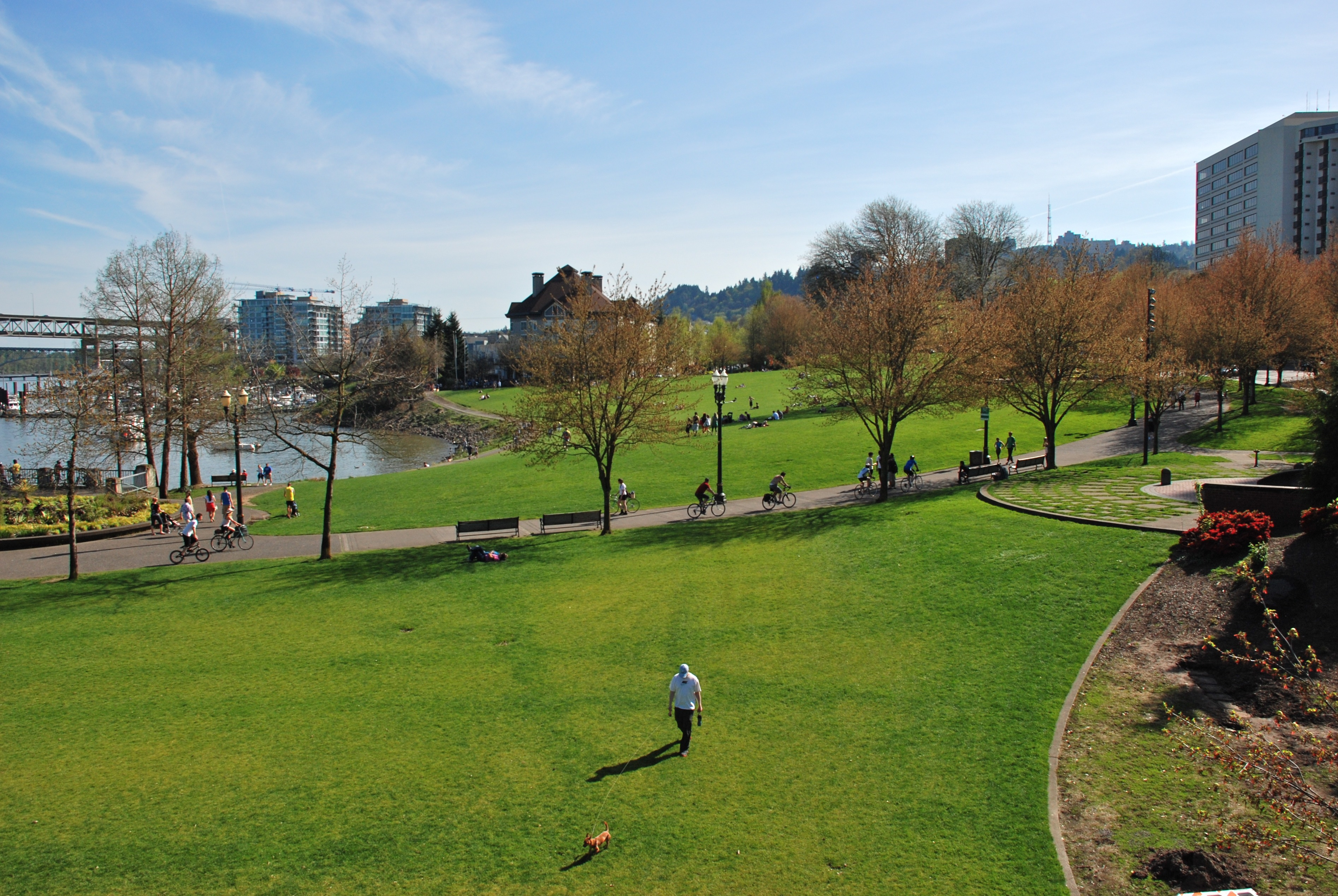 The southernmost section of Tom McCall Waterfront Park, in Portland, Oregon, viewed from the Hawthorne Bridge, looking south towards RiverPlace.